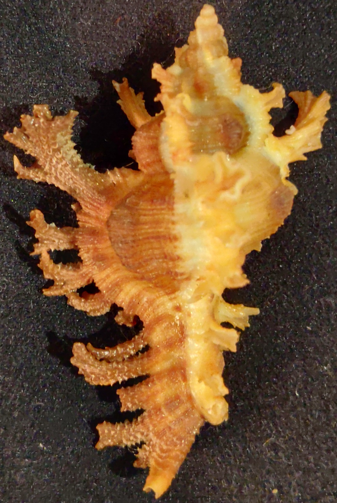 chicoreus banksii crocatus backside